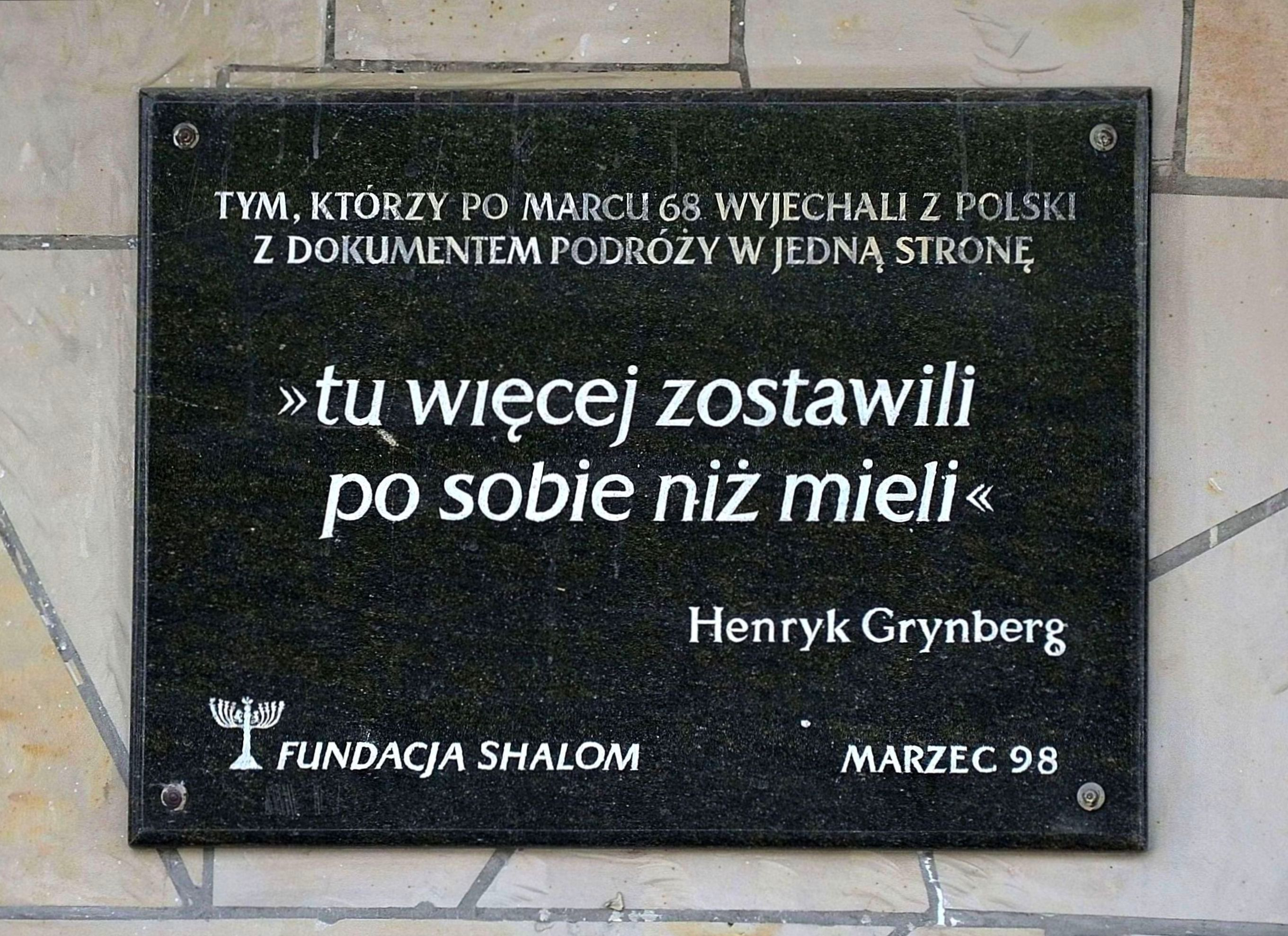 Commemorative plaque on the building of Warszawa Gdańska railway station in Warsaw